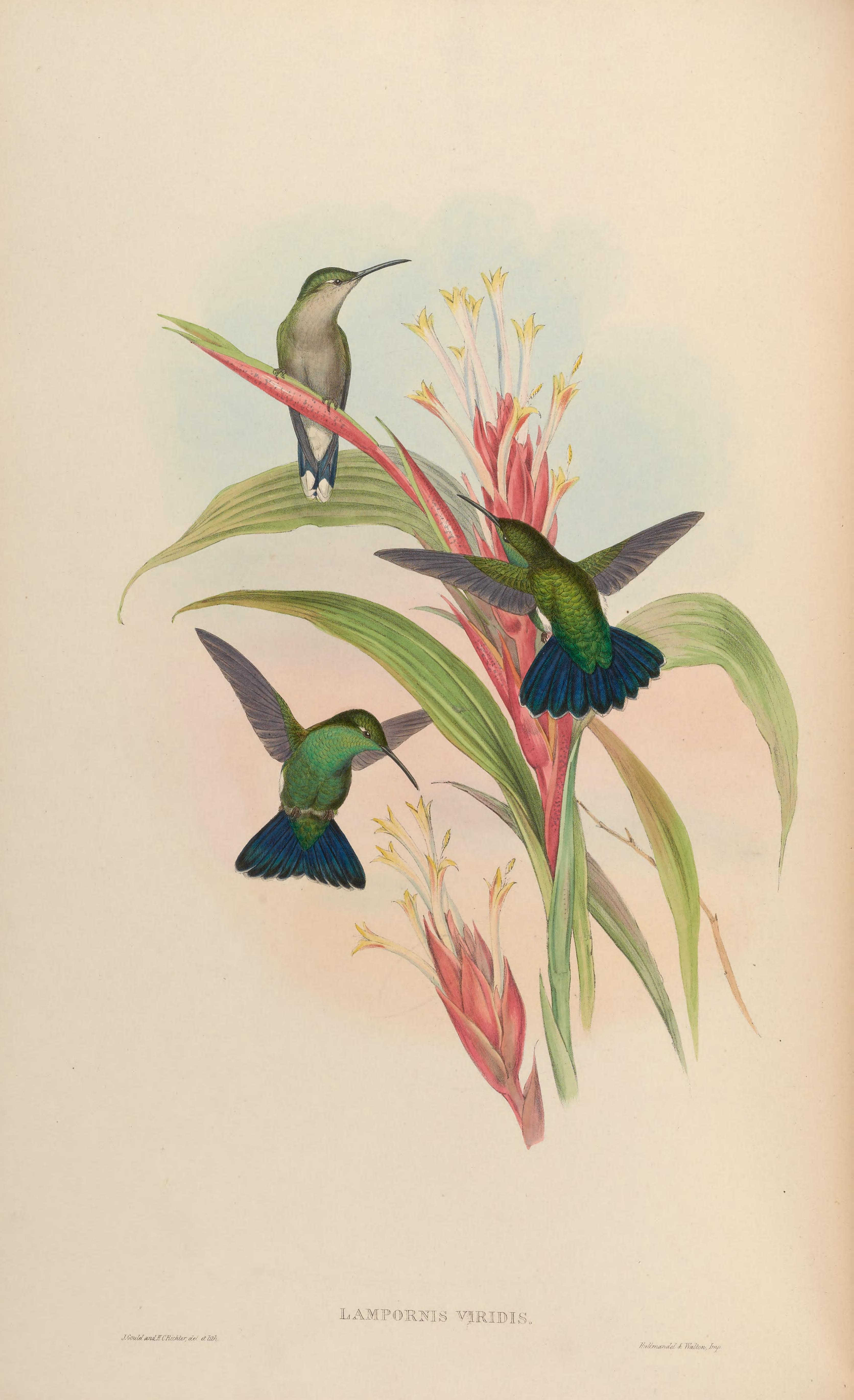 Lampornis viridis = Anthracothorax viridis [1]